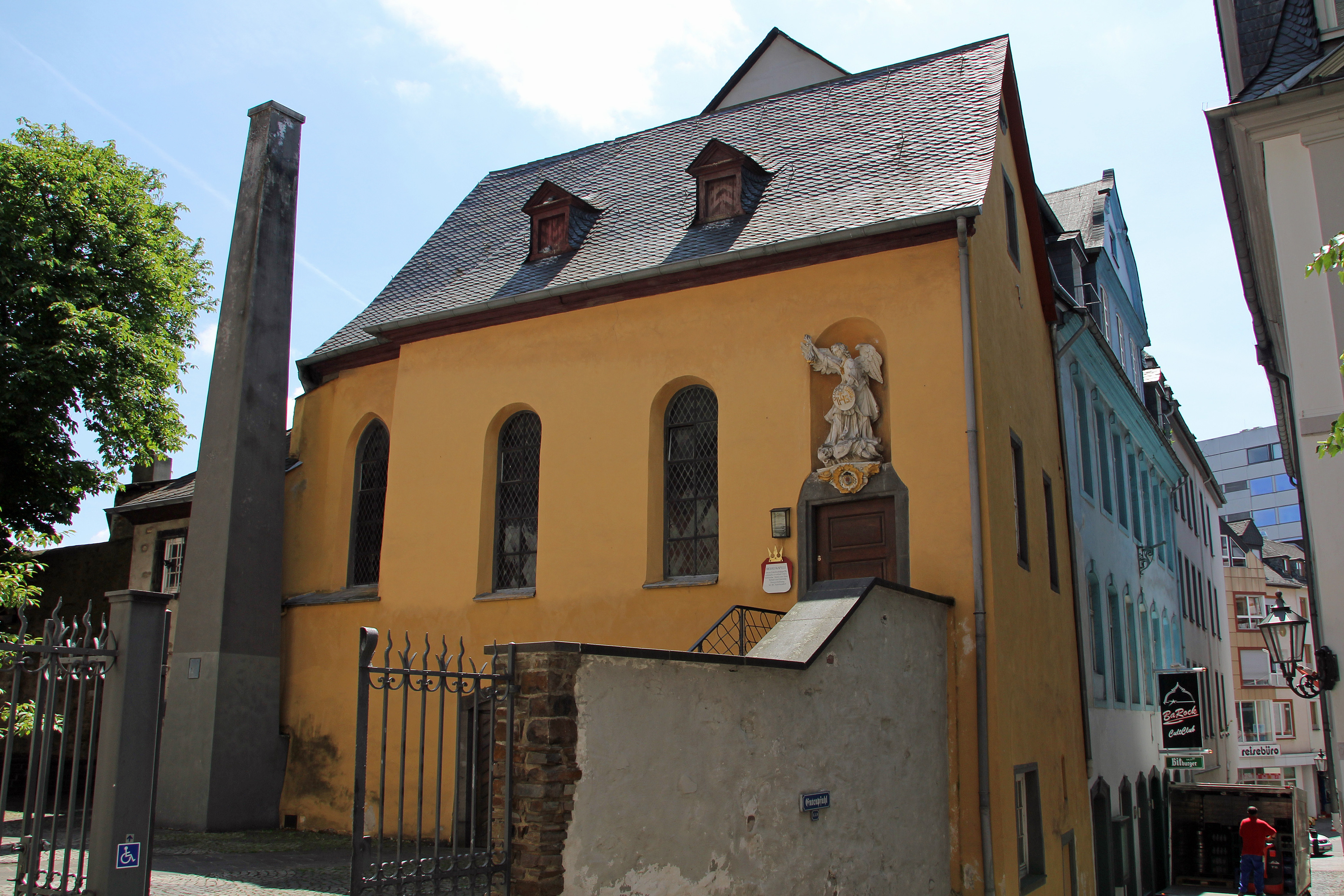 Michaelskapelle in Koblenz